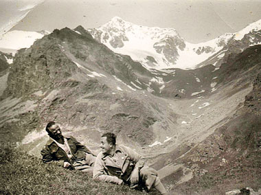 The memory of Focherini on the Avvenire in 1945 (Photo of the ARCHIVE OF MEMORY OF ODOARDO FOCHERINI).